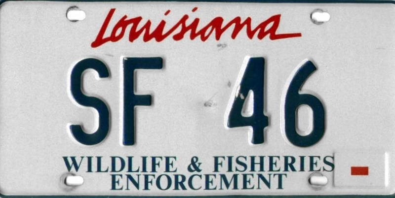 Photo of typical governmental license plate once used on vehicles operated by Louisiana Department of Wildlife & Fisheries - Enforcement Division.